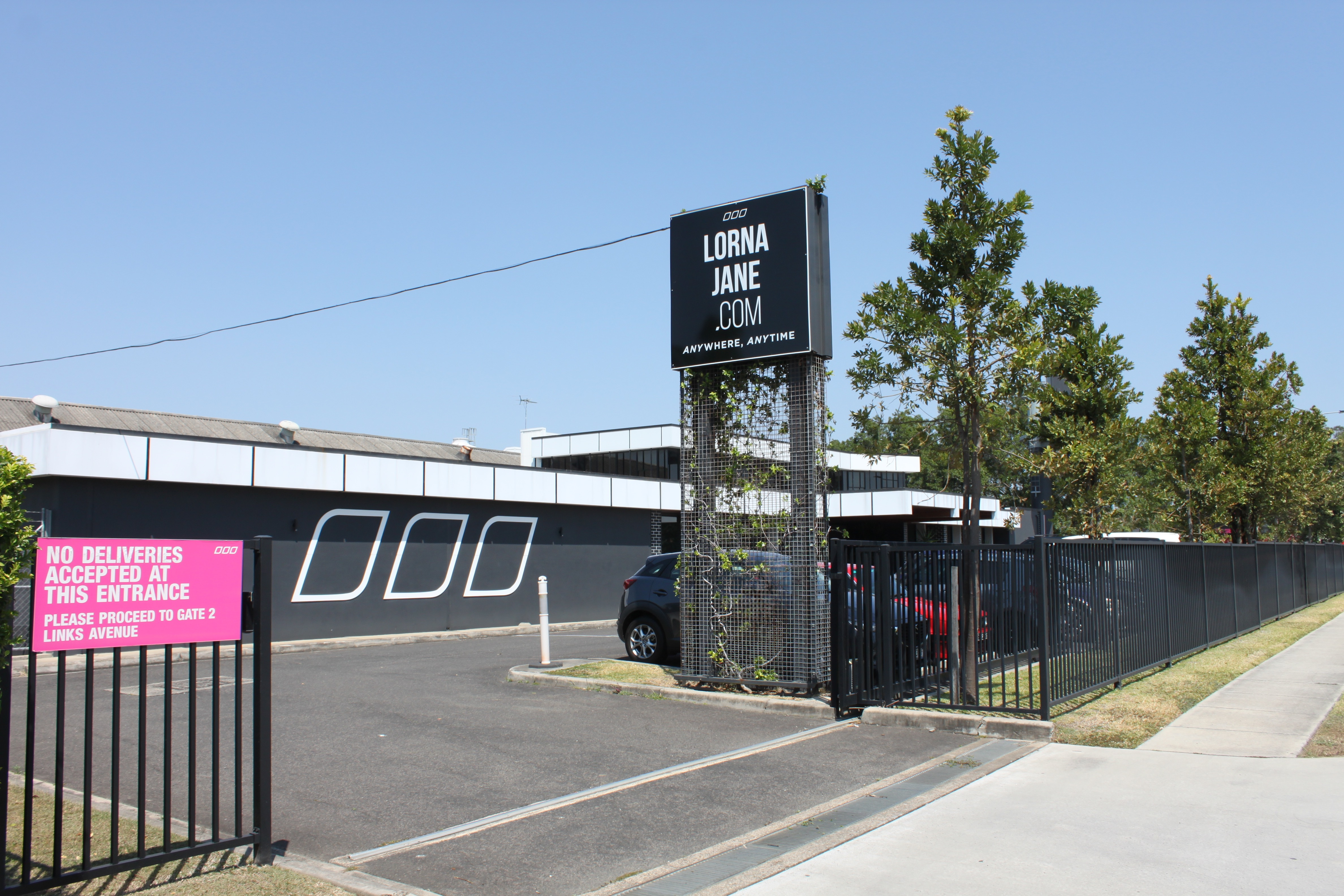 Lorna Jane headquarters, 857 Kingsford Smith Drive, Eagle Farm, Brisbane